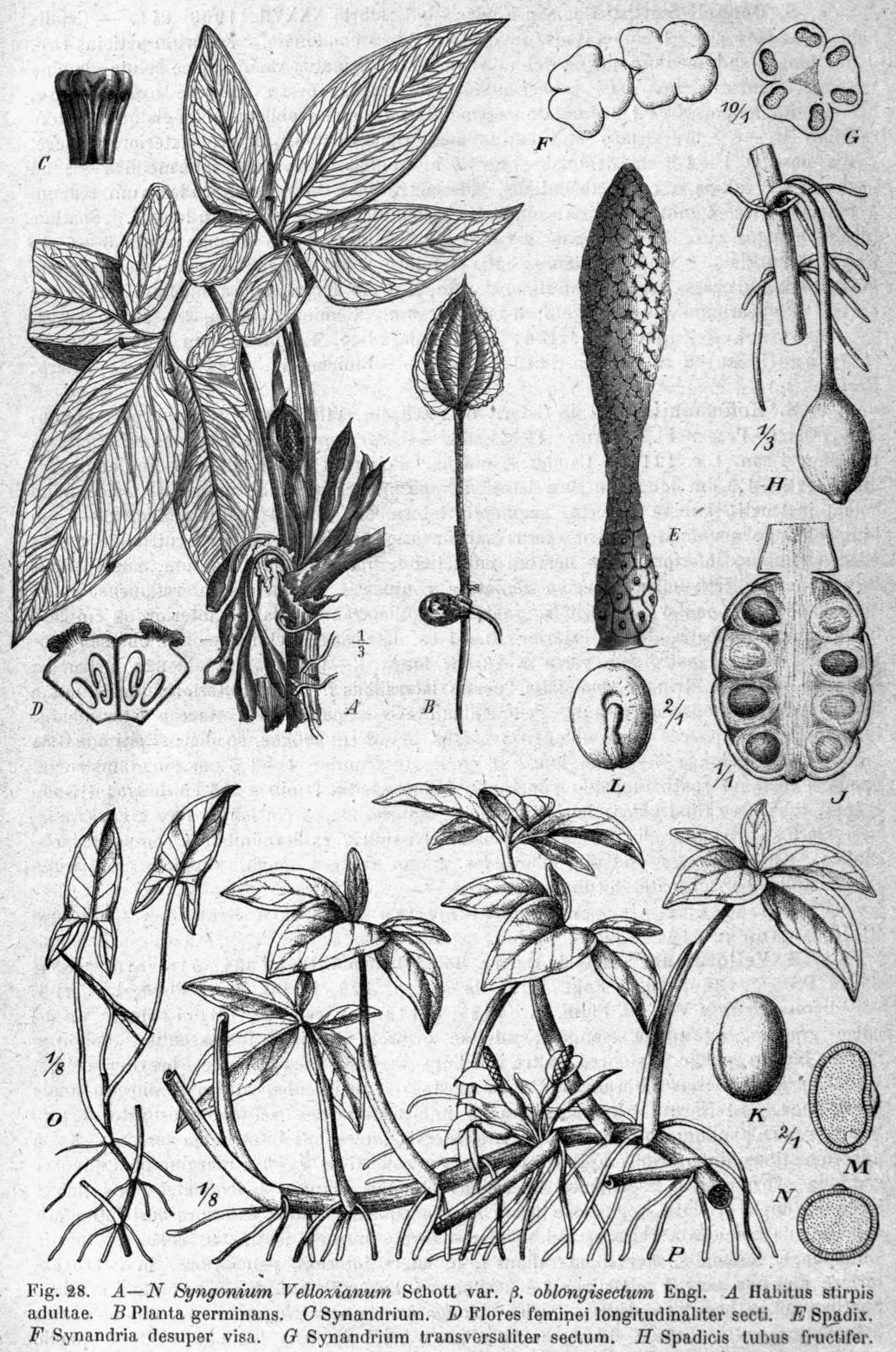 Syngonium podophyllum var. podophyllum botanical drawing